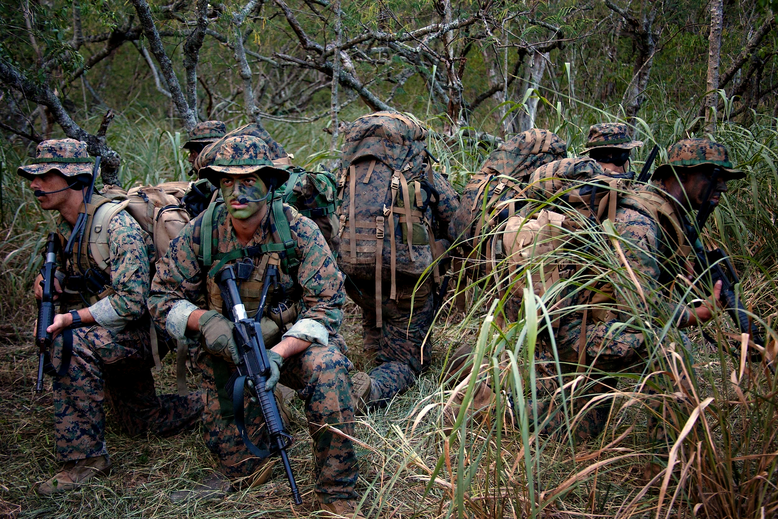 Reconnaissance Marines with 4th Force Reconnaissance Company secure themselves by watching in all directions during their two weeks of annual training at the Marine Corps Training Area Bellows, Hawaii, July 18, 2013. (U.S. Marine Corps photo by Lance Cpl. Nathan Knapke/Released)